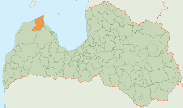 Map of Dundaga